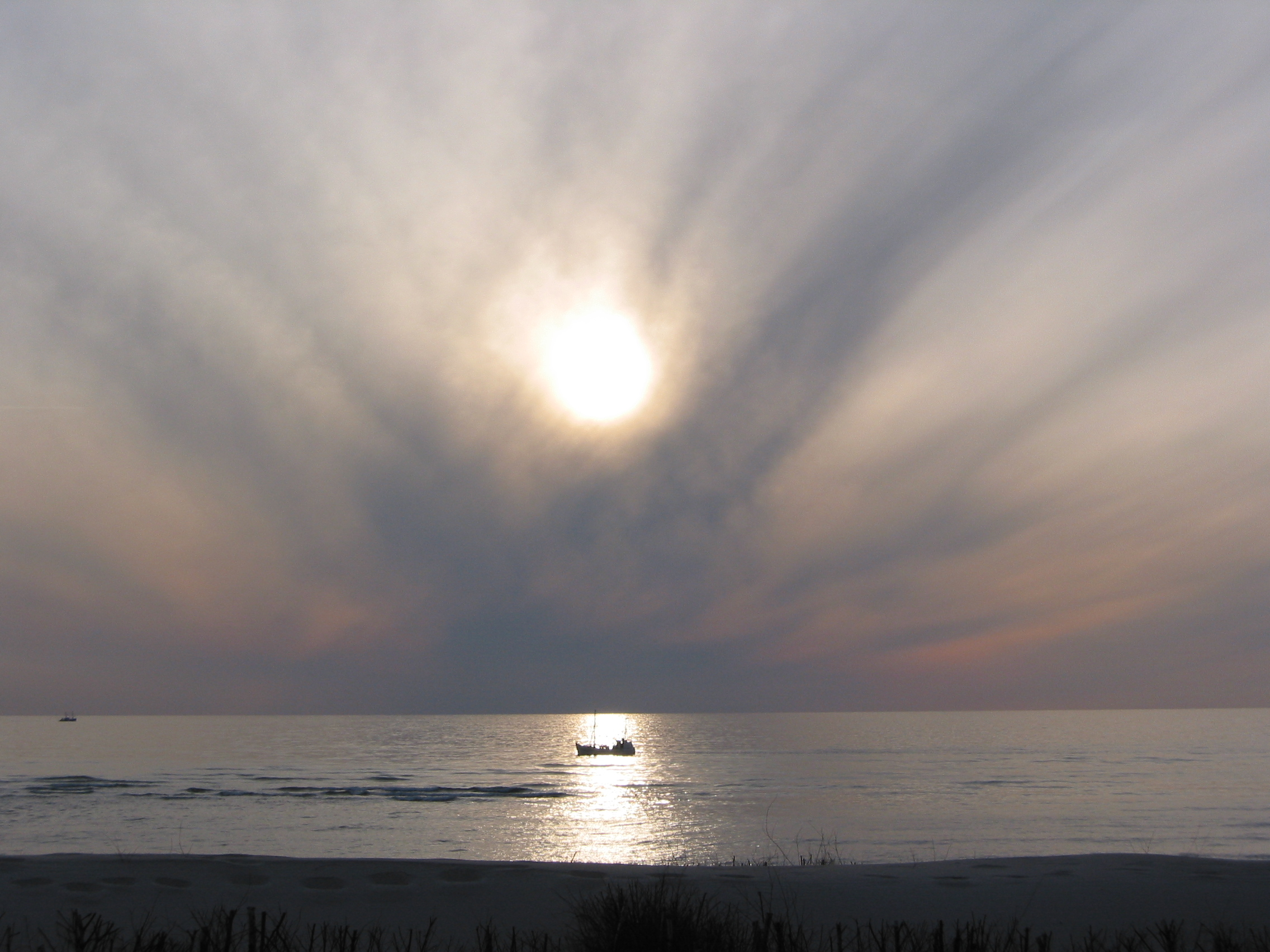 Sundown with upcoming storm at Westerland, Sylt, Germany.